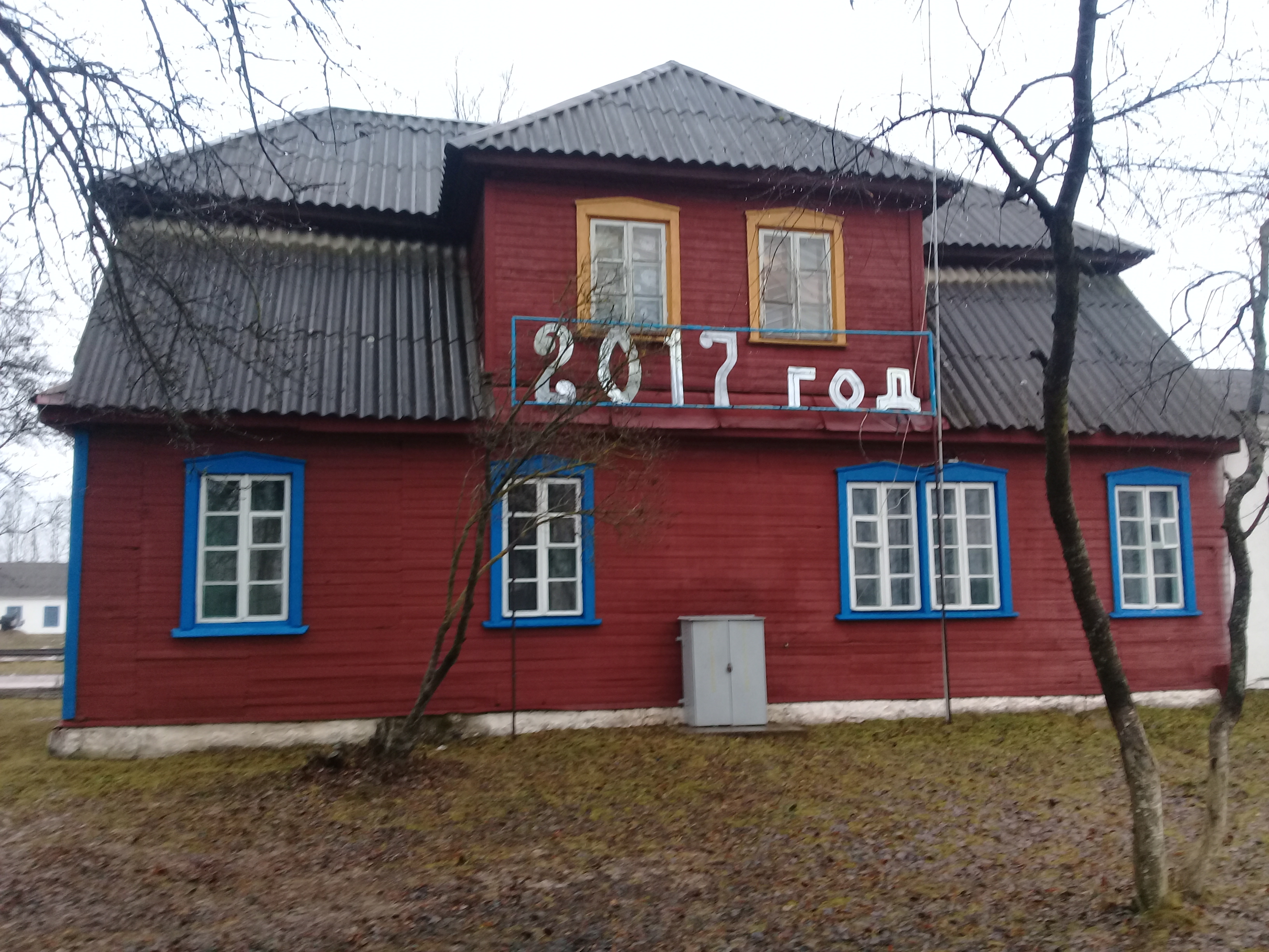 Дом у "закапанскім стылі"